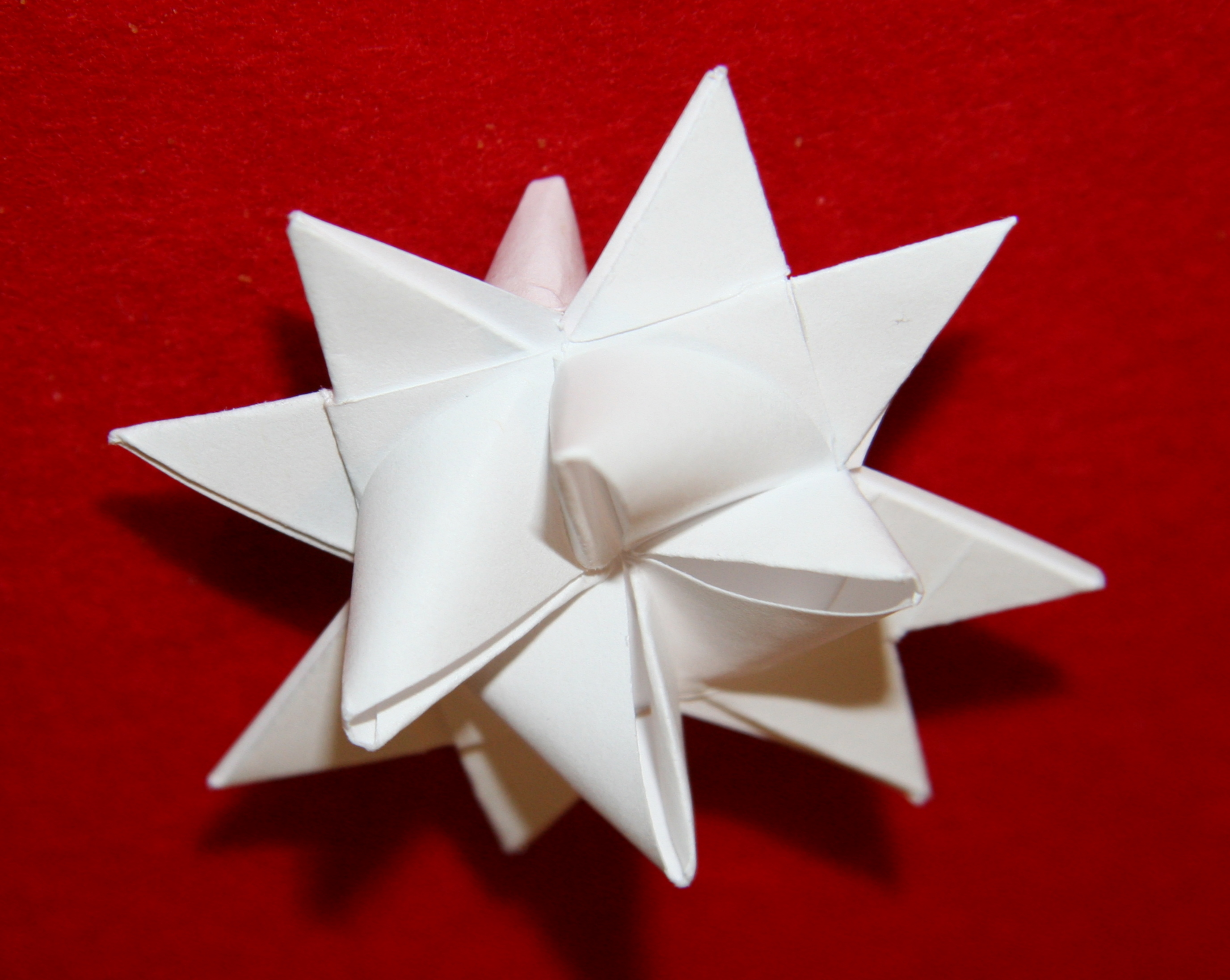 A traditional craft Christmas ornament made by weaving and folding four long thin strips of paper, known by several names, including Froebel star (German: Fröbelstern)